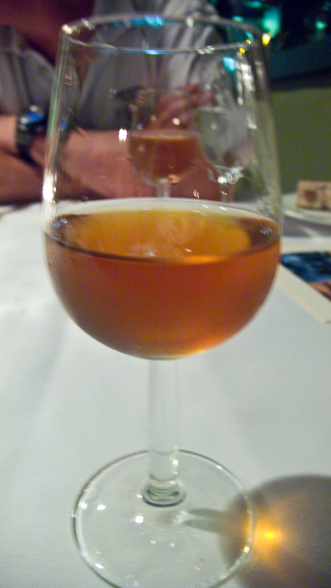 A glass of the Italian dessert wine Vin Santo